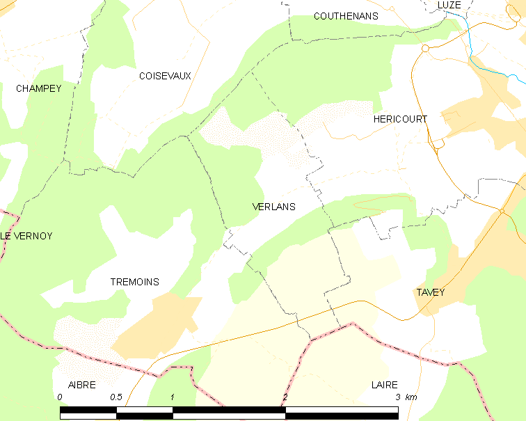 Map of French municipality